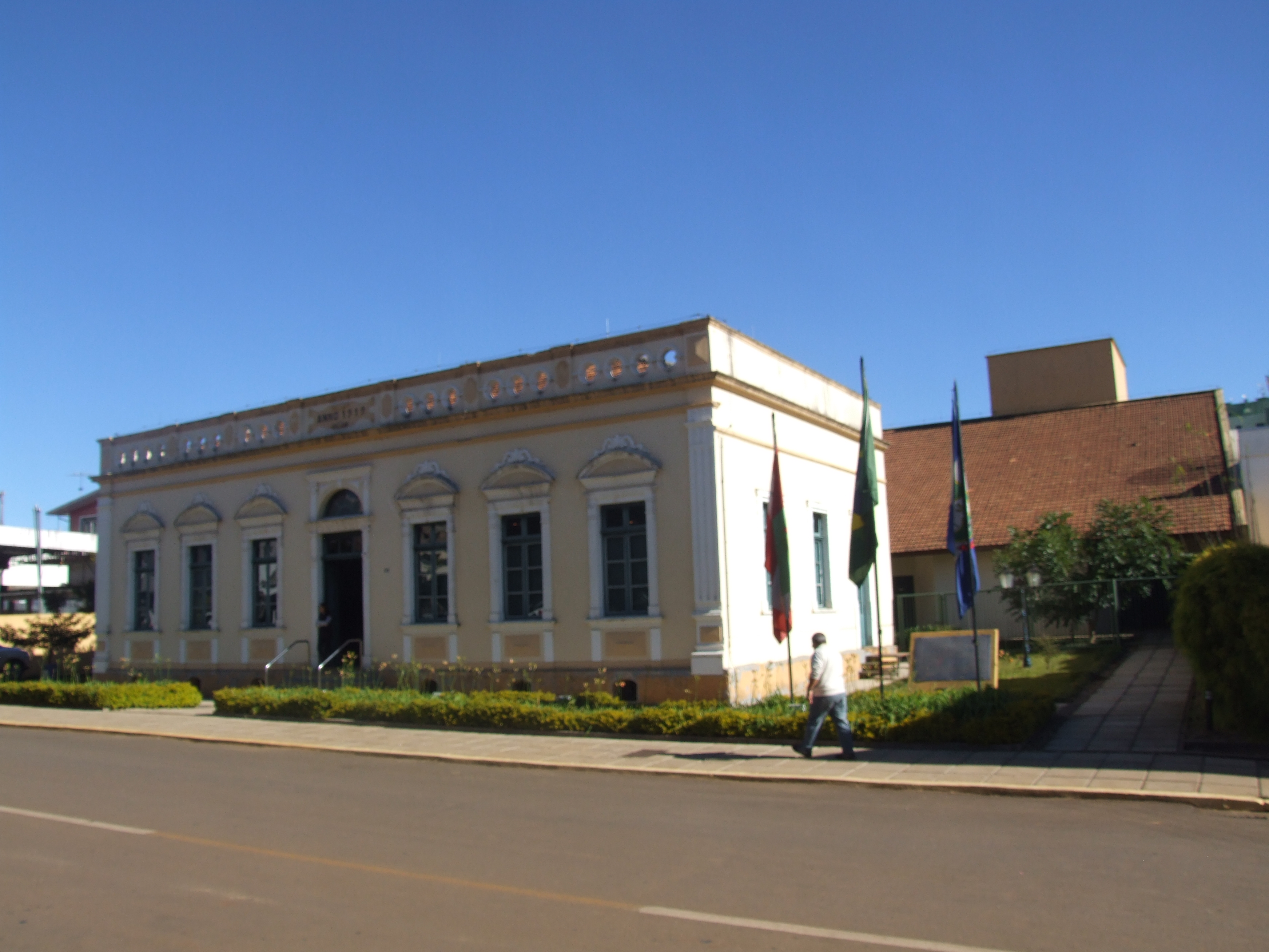 Municipal Historical Museum of Campos Novos, Santa Catarina, Brazil